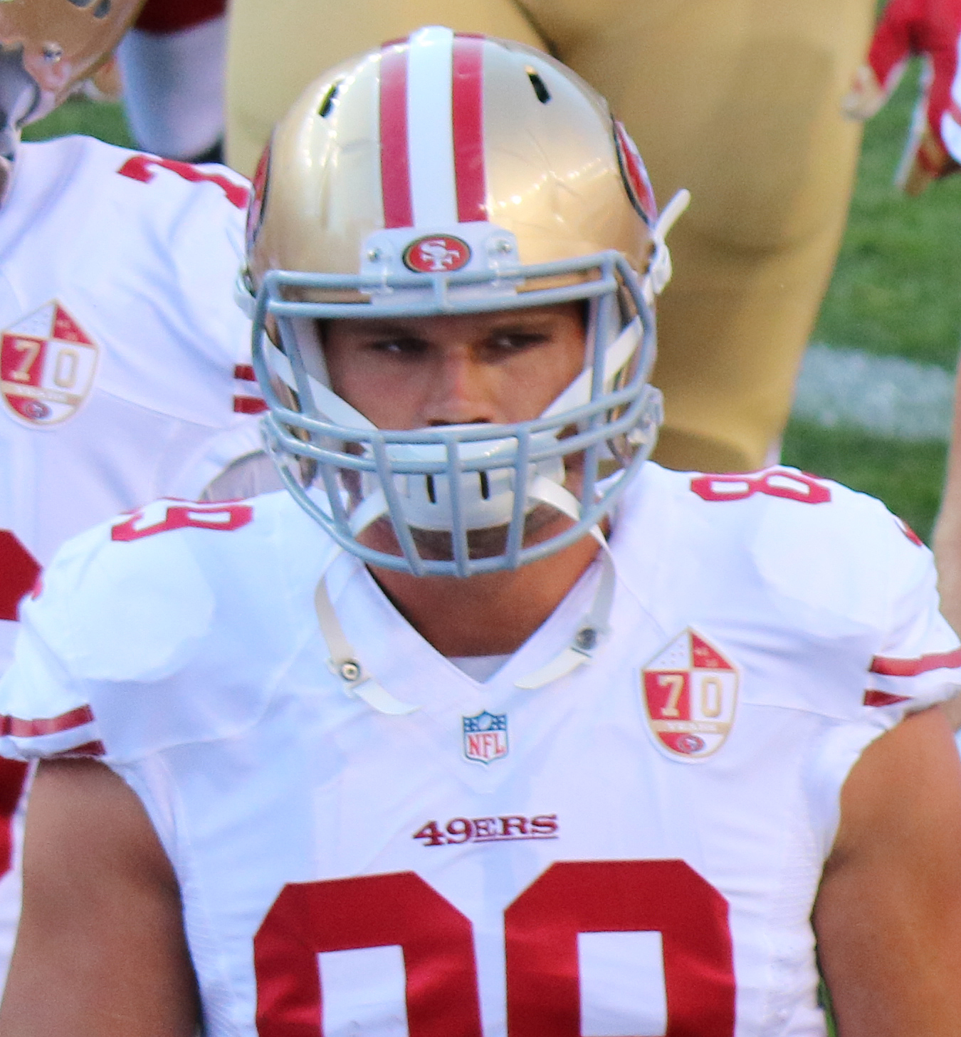 Vance McDonald, a player on the National Football League.